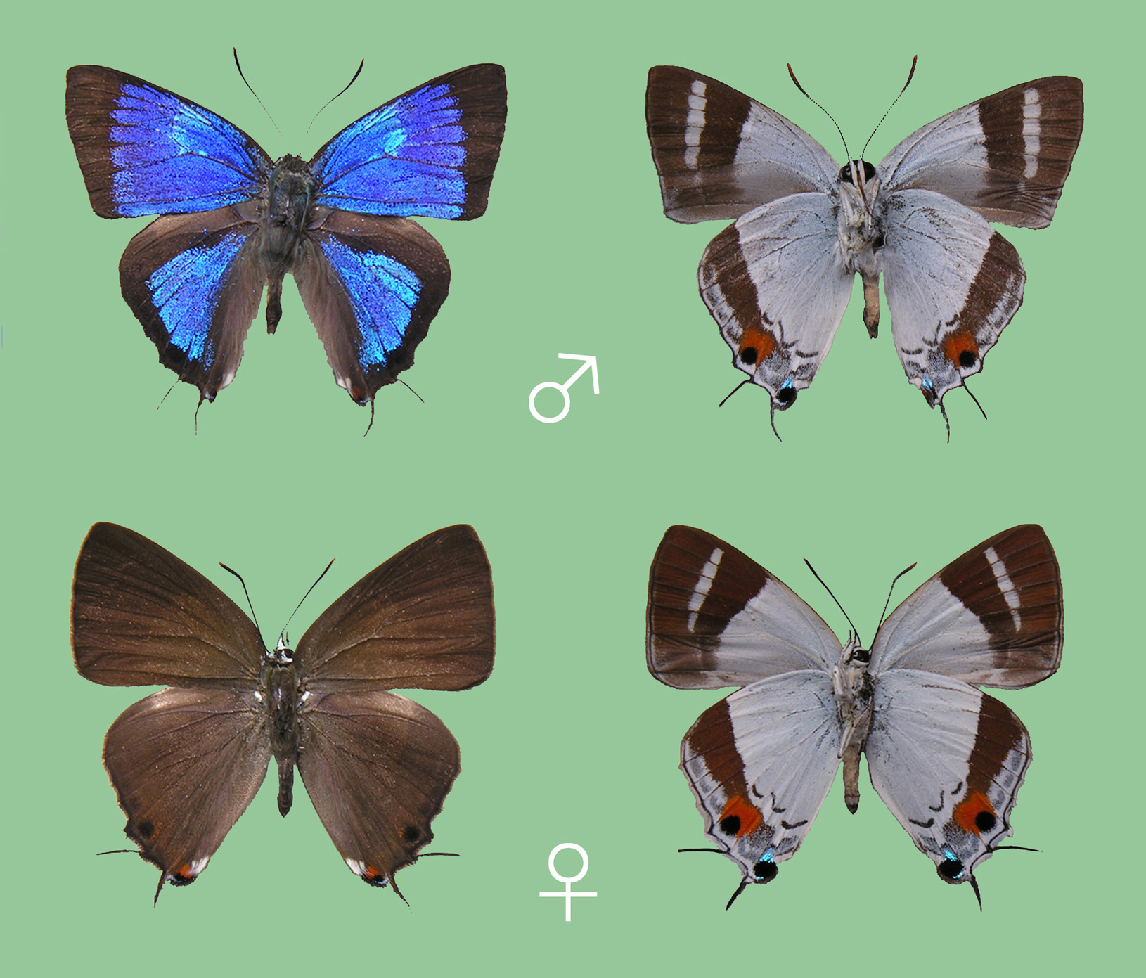 Rachana circumudata, male & female